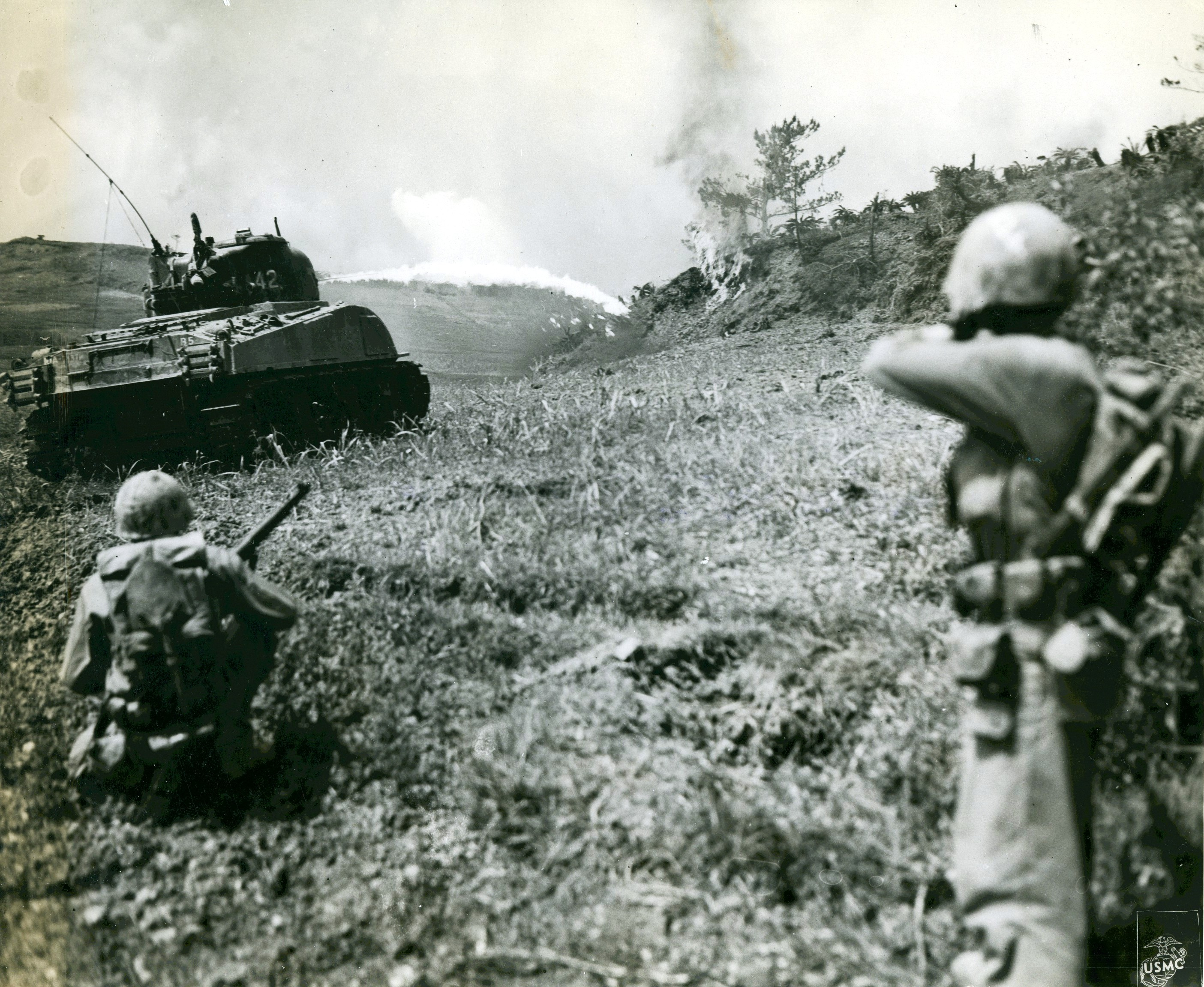 The caption on this photograph reads "Teamwork-Riflemen draw sights on a Jap hillside position as a flame-throwing tank shoots a tongue of flame at the enemy. This photo was found in the camera of a wounded combat photographer." From the Photograph Collection (COLL/3948), Marine Corps Archives & Special Collections OFFICIAL USMC PHOTOGRAPH